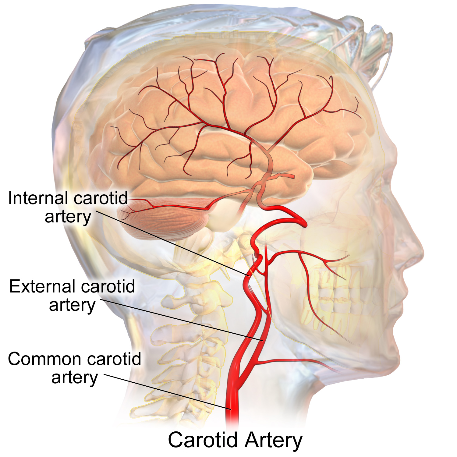 Carotid Arteries. See a full animation of this medical topic.